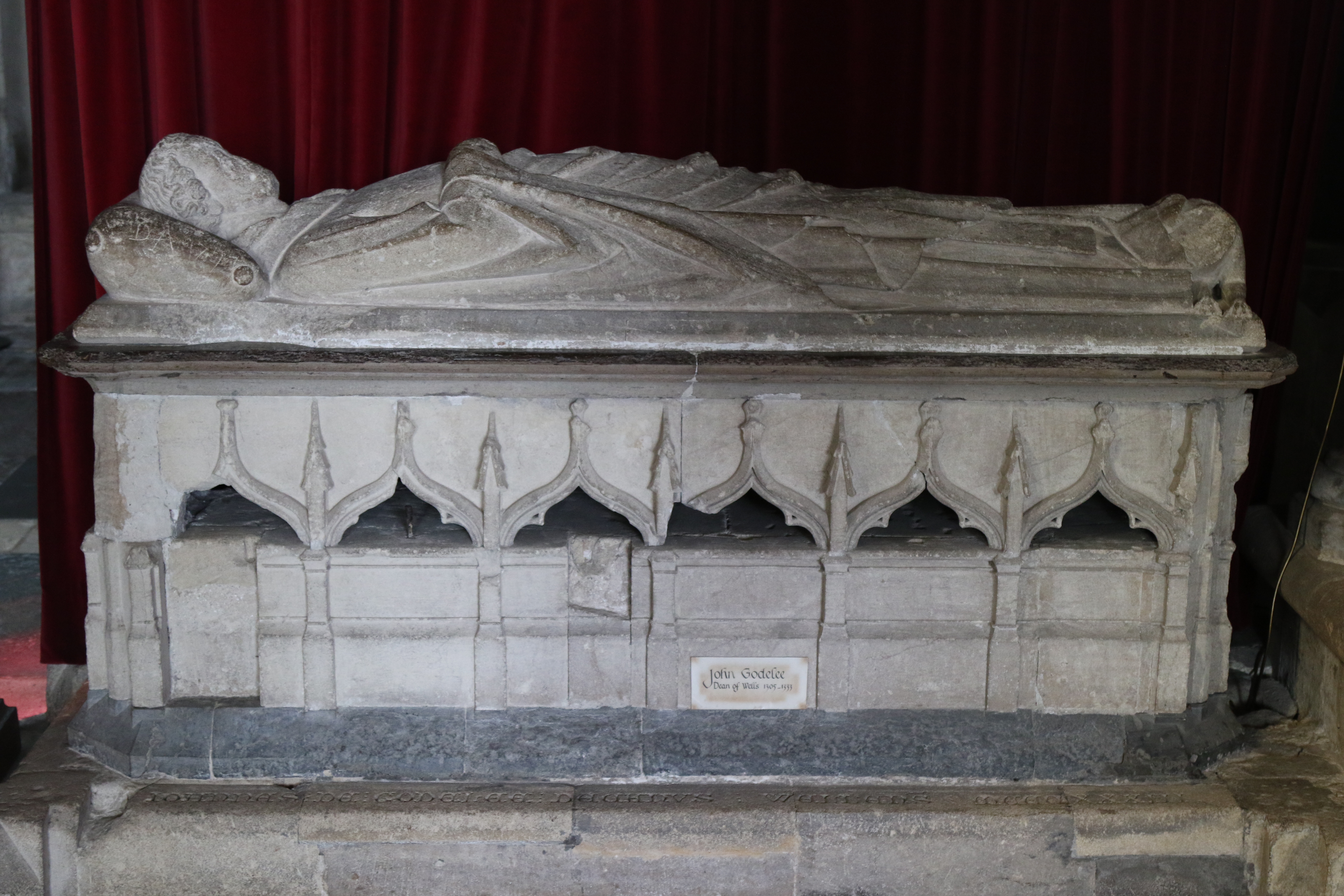 Dean of Wells 1305 - 1333